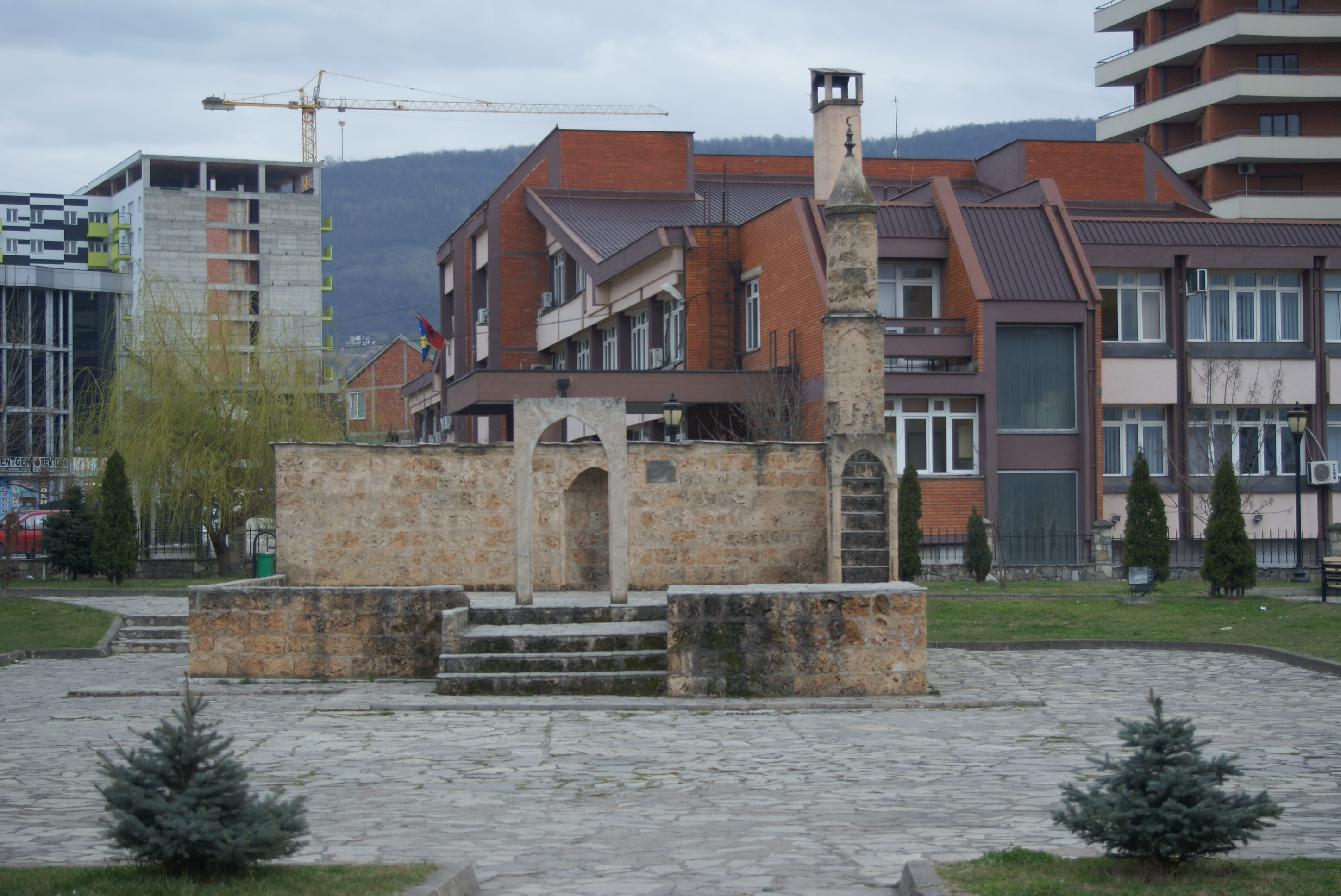 Xhamia e Namazxhauhut